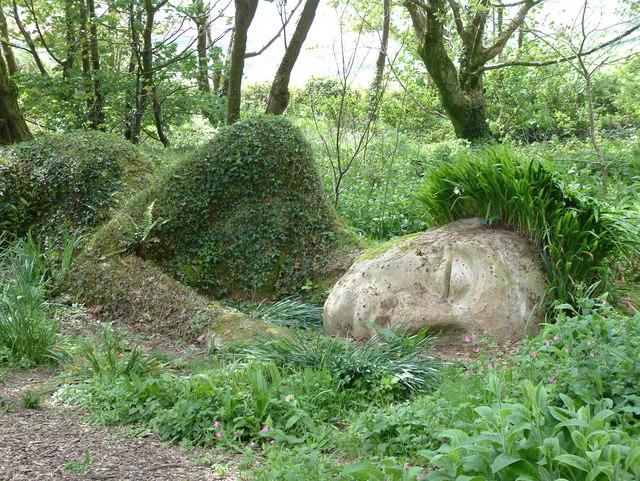 The Lost Gardens of Heligan. Susan Hill's sculpture The Mud Maid